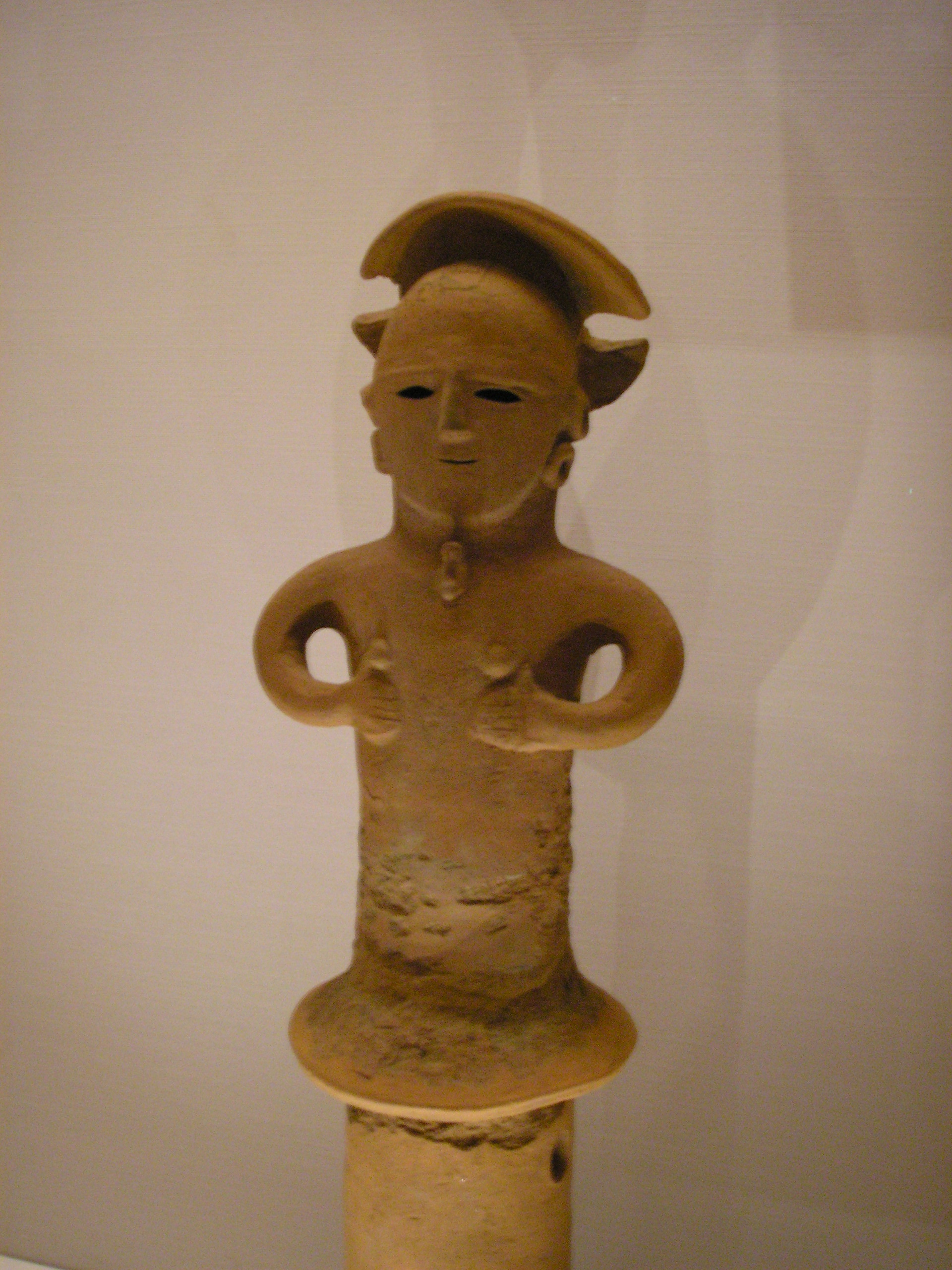 Earthenware female figure, so-called Haniwa, from the Kofun period, 6th century C.E. Collection Klaus F. Naumann. In the Museum für Ostasiatische Kunst, Berlin-Dahlem.